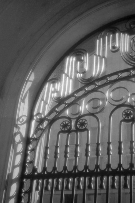 Detail of the Constitution Square architecture